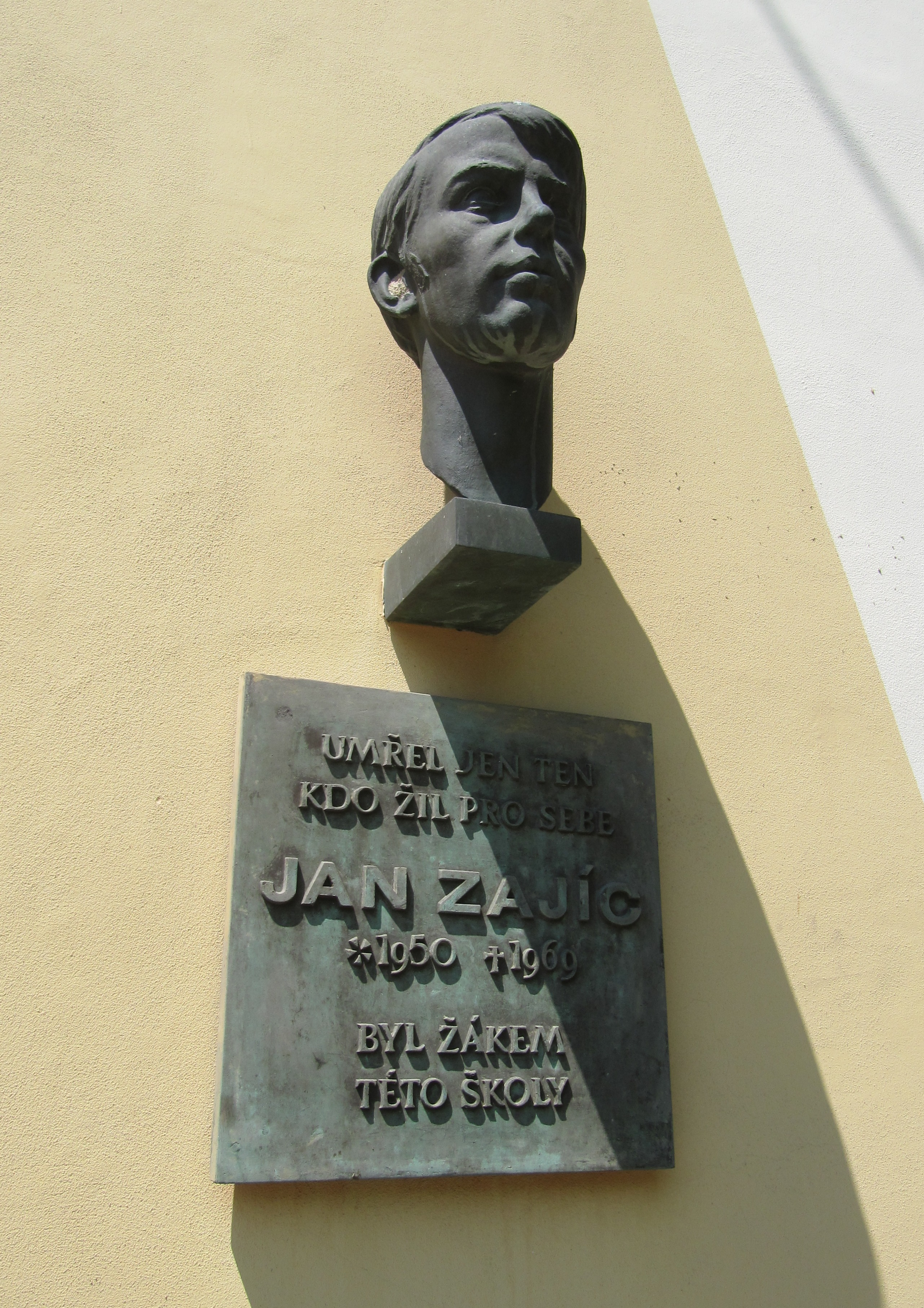 Vítkov, Opava District, Czech Republic.